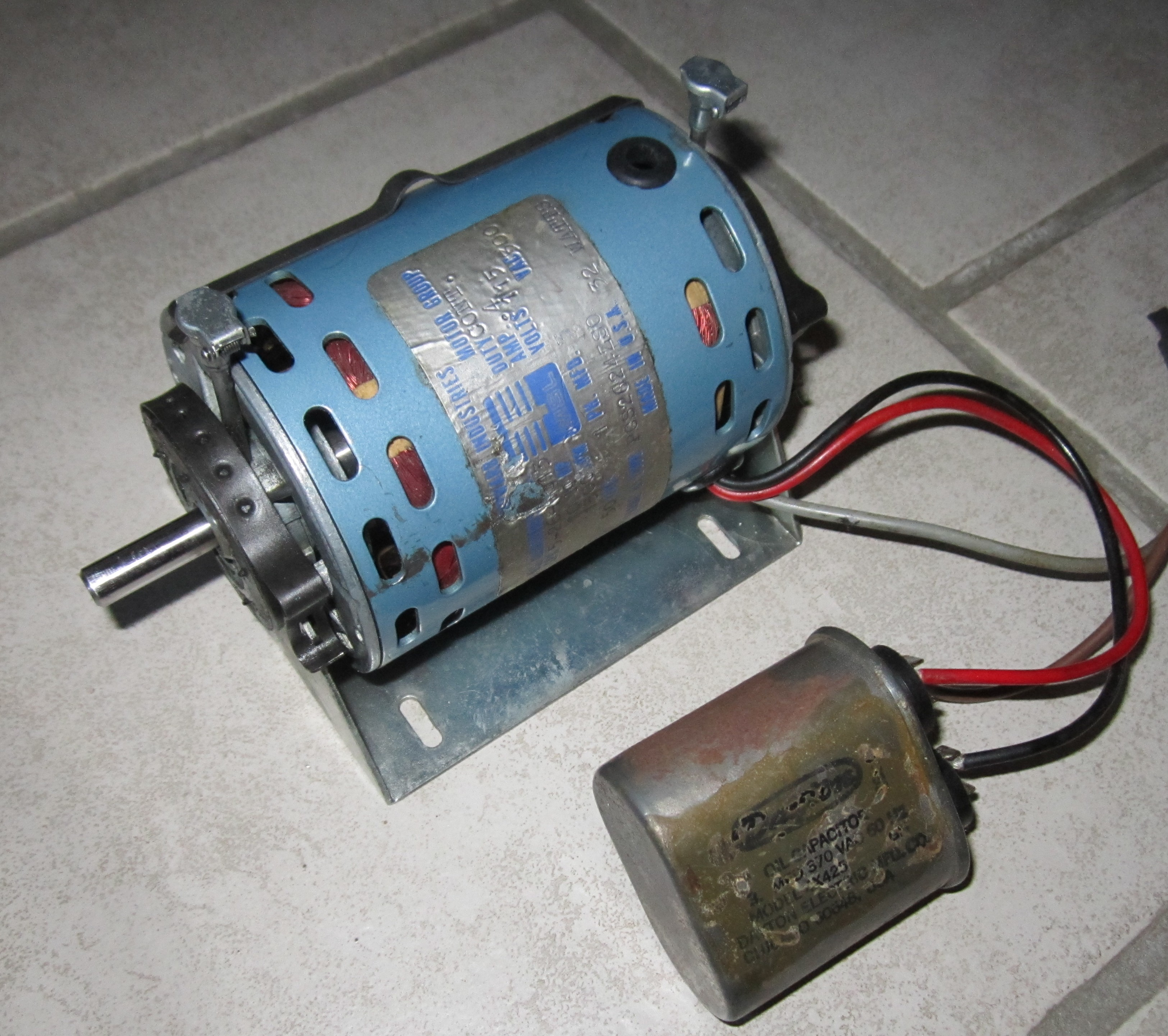 Selfstarting synchronous motor found in later Hammond organs. 115 V, 0,4 A, 50 Hz, 1500 rpm, 32 W, (Cap: 3 µF, 370 V 60 Hz). Howard Industries / MSL Industries inc.